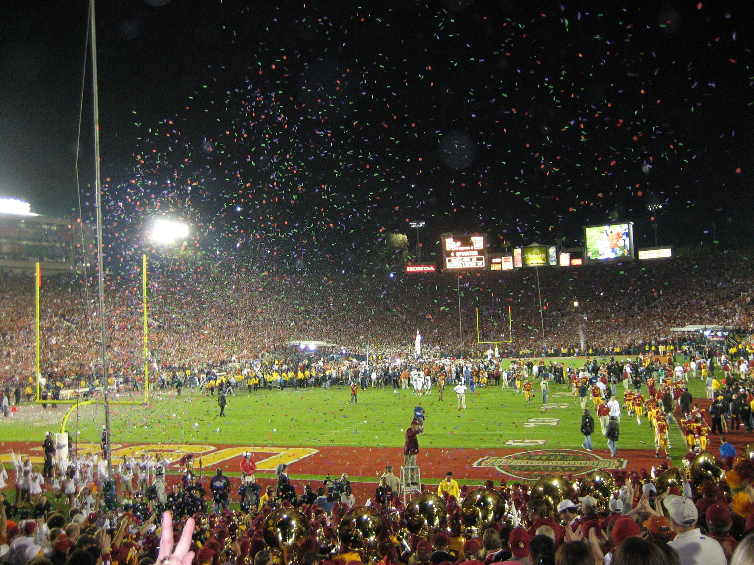 Confetti rains down as UT stops USC's last drive